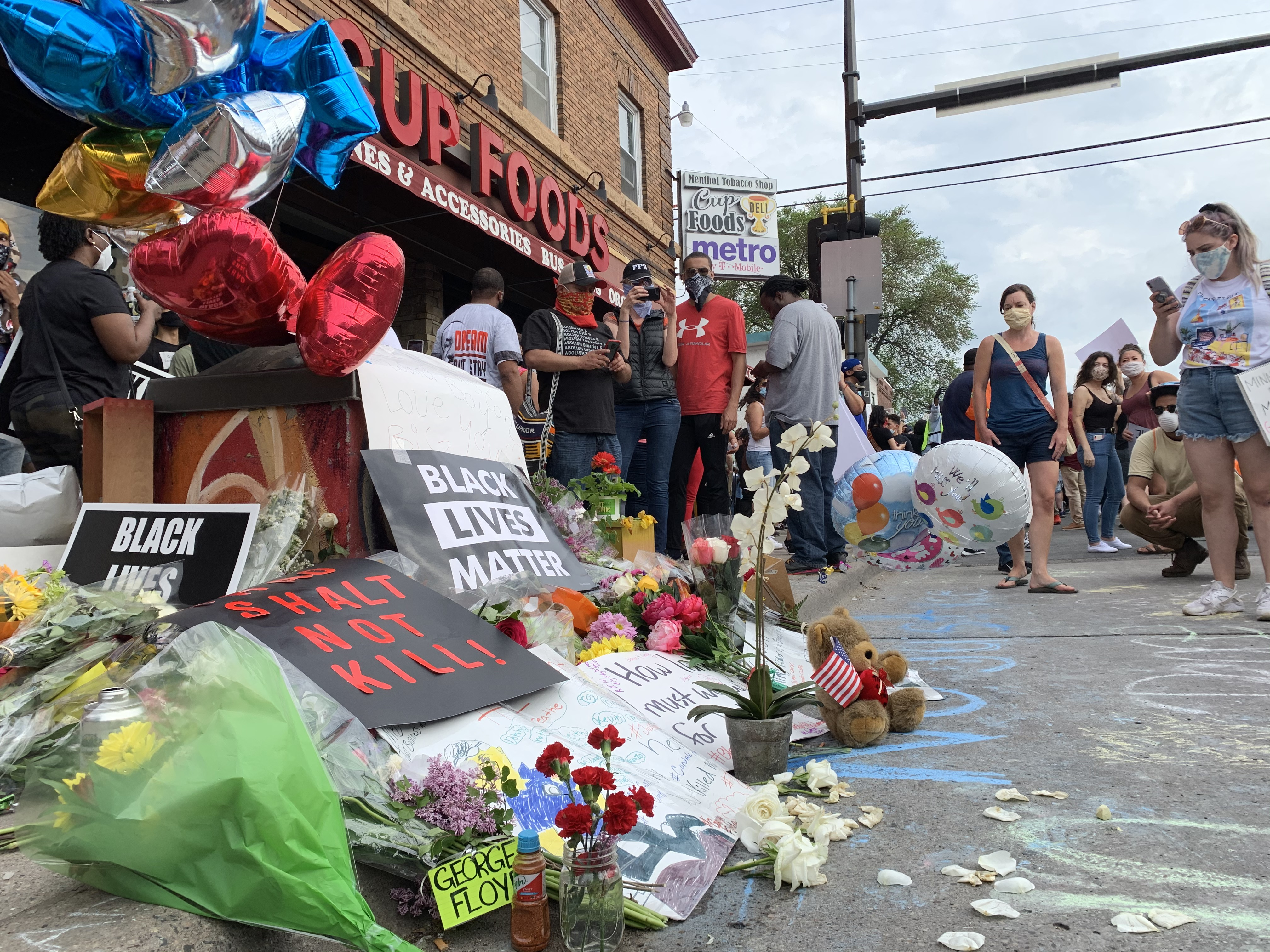 On May 26, 2020, people protested against police violence after the death of George Floyd on the previous day. A memorial was made outside Cup Foods, where Floyd was killed.